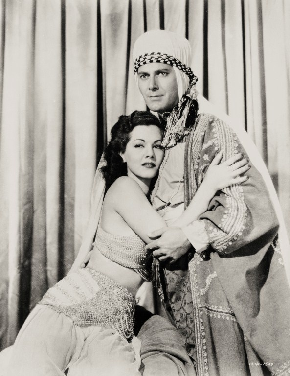 María Montez & Jon Hall in Arabian Nights - publicity still